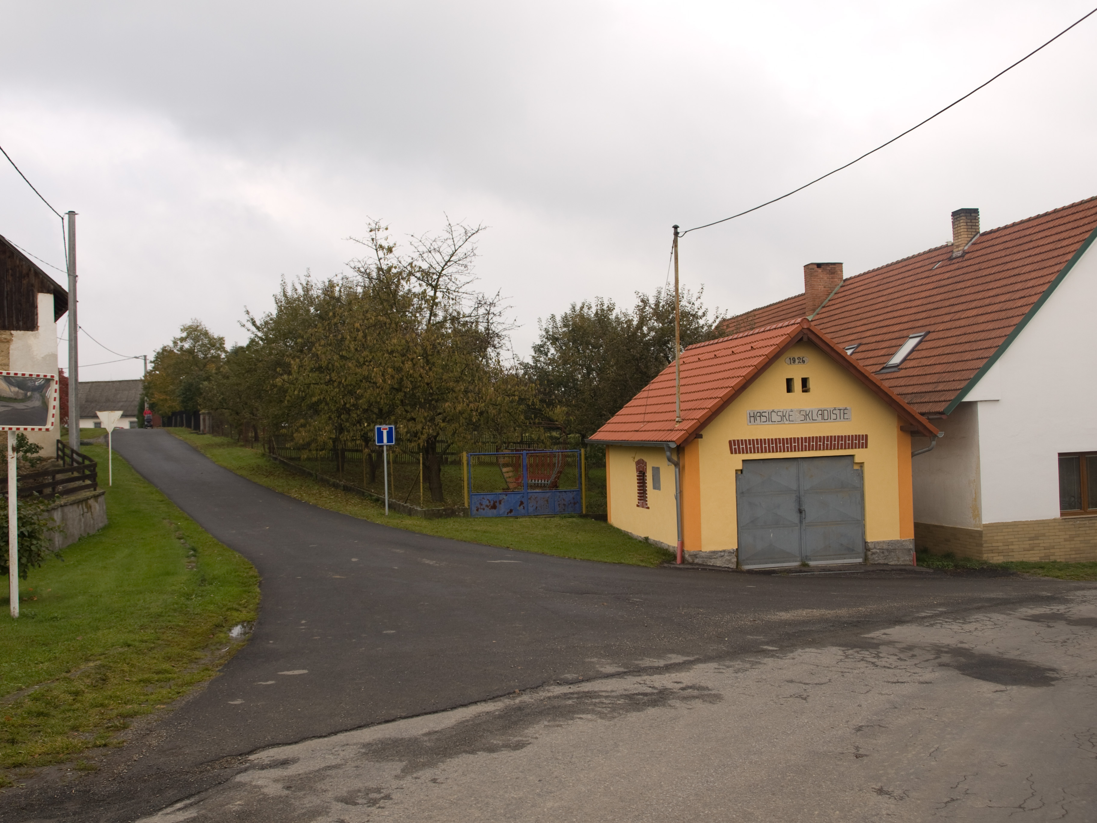 Village square, Strnadice, Maršovice, Benešov District, Czech Rebublic